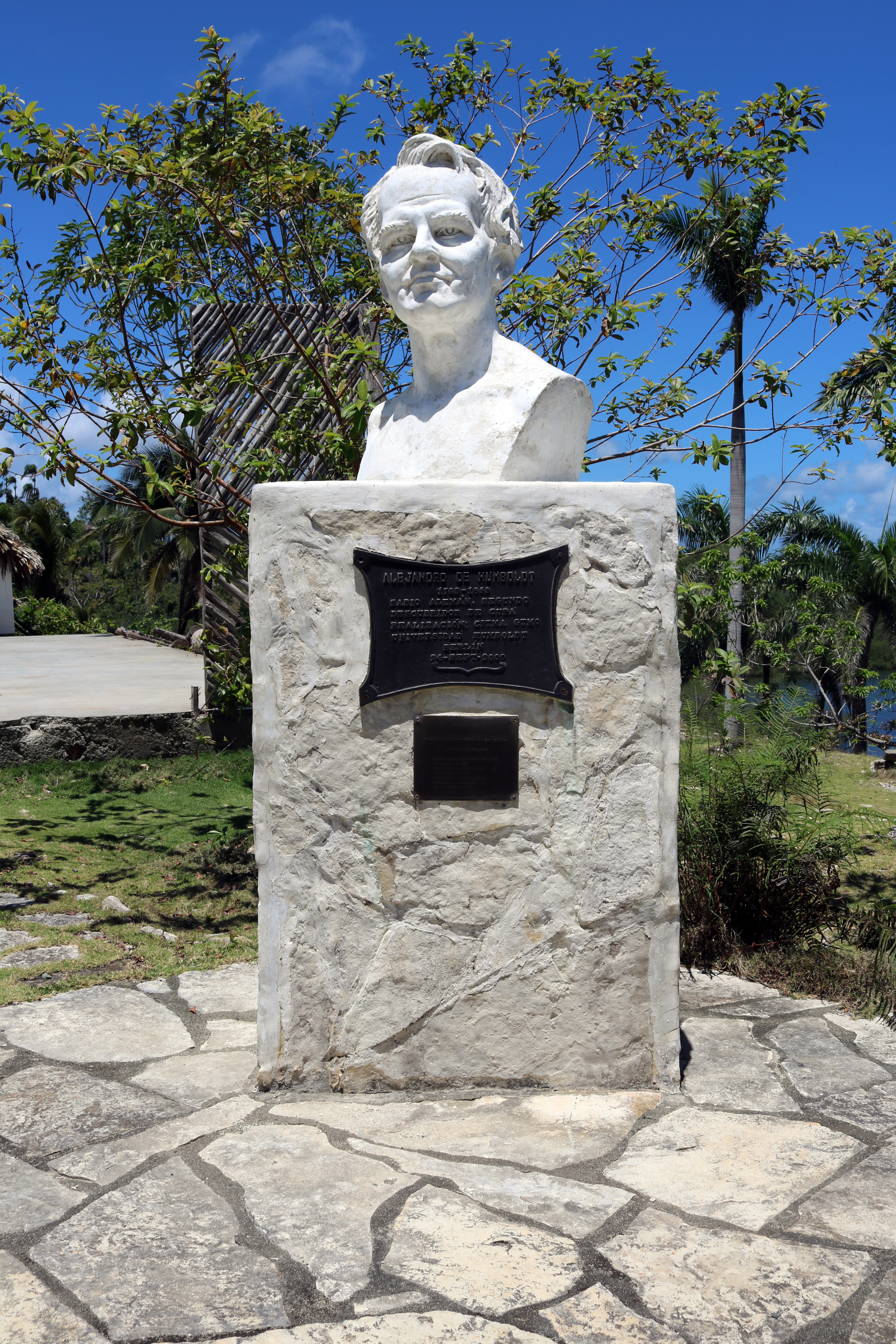 Statue von Alexander von Humboldt, Besucherzentrum des Alexander von Humboldt-Nationalpark, in Kuba, Provinz Guantanamo und Holguin